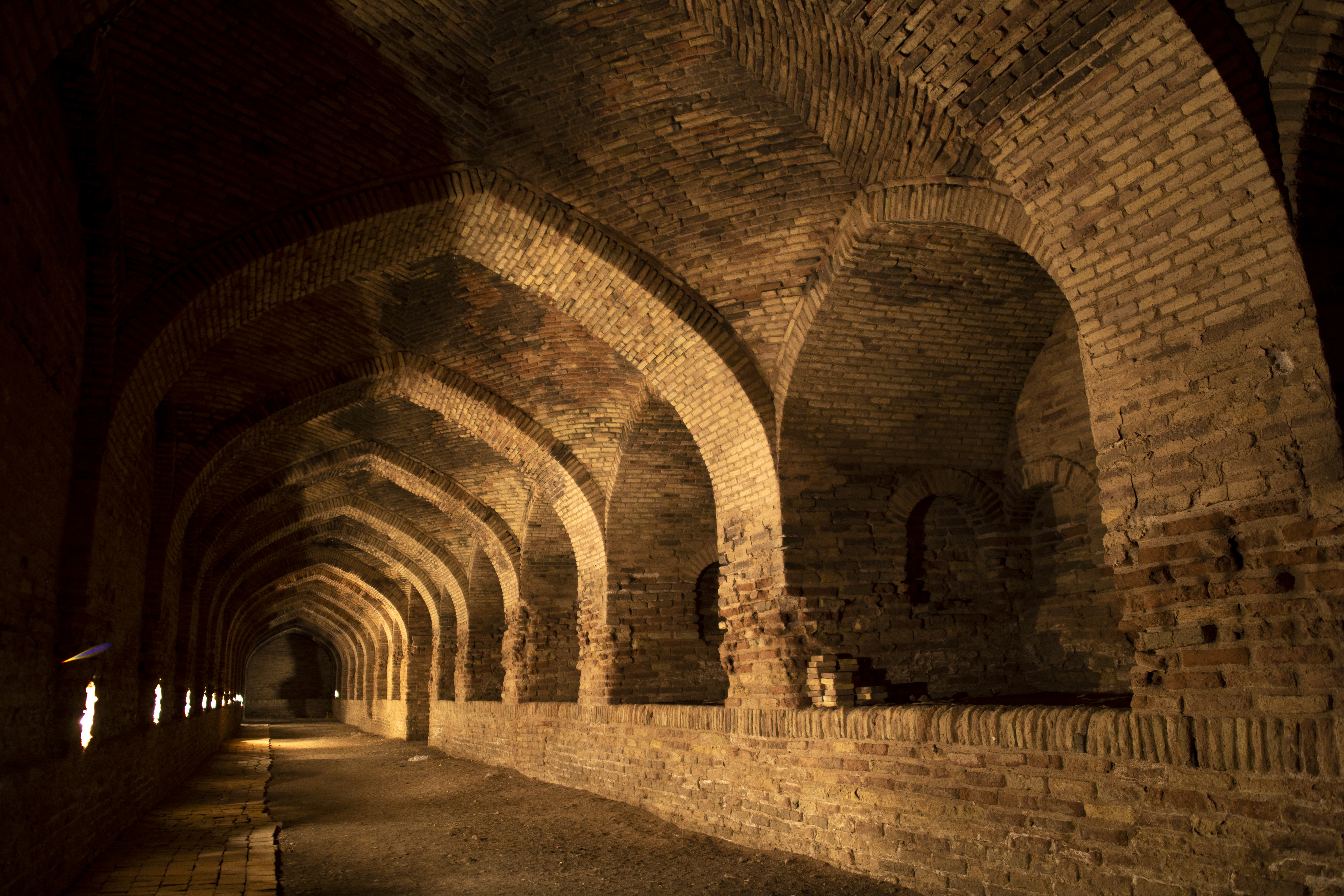 Deir-e Gachin Caravansarai is one of the greatest caravansarais of Iran which is located in the center of Kavir National Park. Its unique qualities is the reason it is called “Mother of Iranian Caravansarais”. It is located in the Central District of Qom County, 80 kilometers north-east of Qom (60 kilometers into Garmsar Freeway) and 35 kilometers south-west of Varamin. (Photo by: Mostafa Meraji, wiki loves monuments 2018)